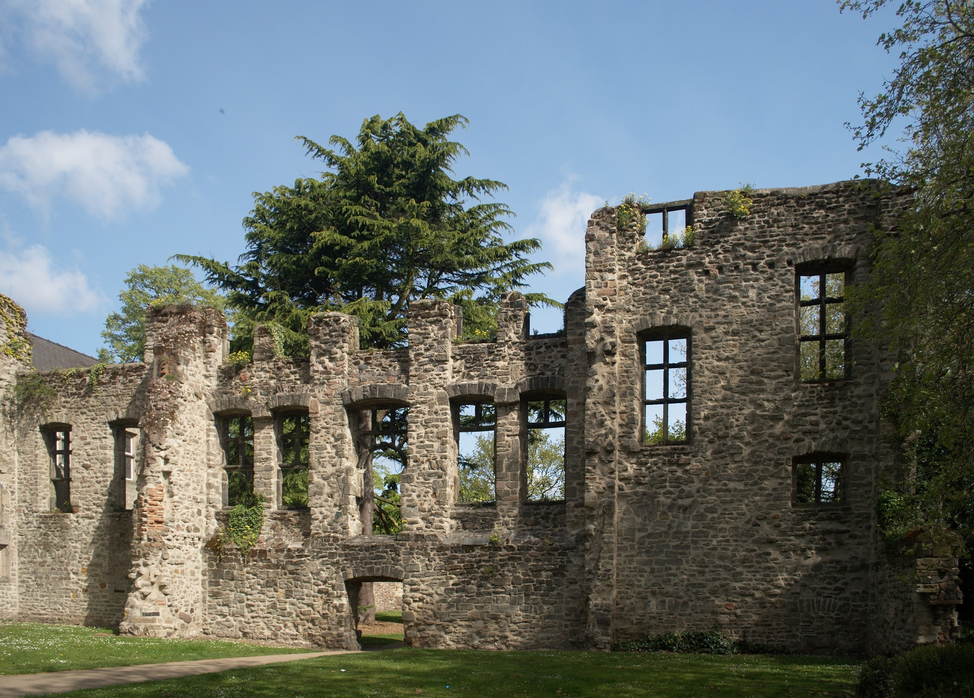 Cavendish House, Abbey Park, Leicester. A Scheduled Monument and Grade I listed building.